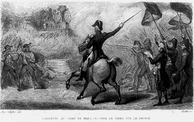 La Fayette firing on the Cordeliers Club